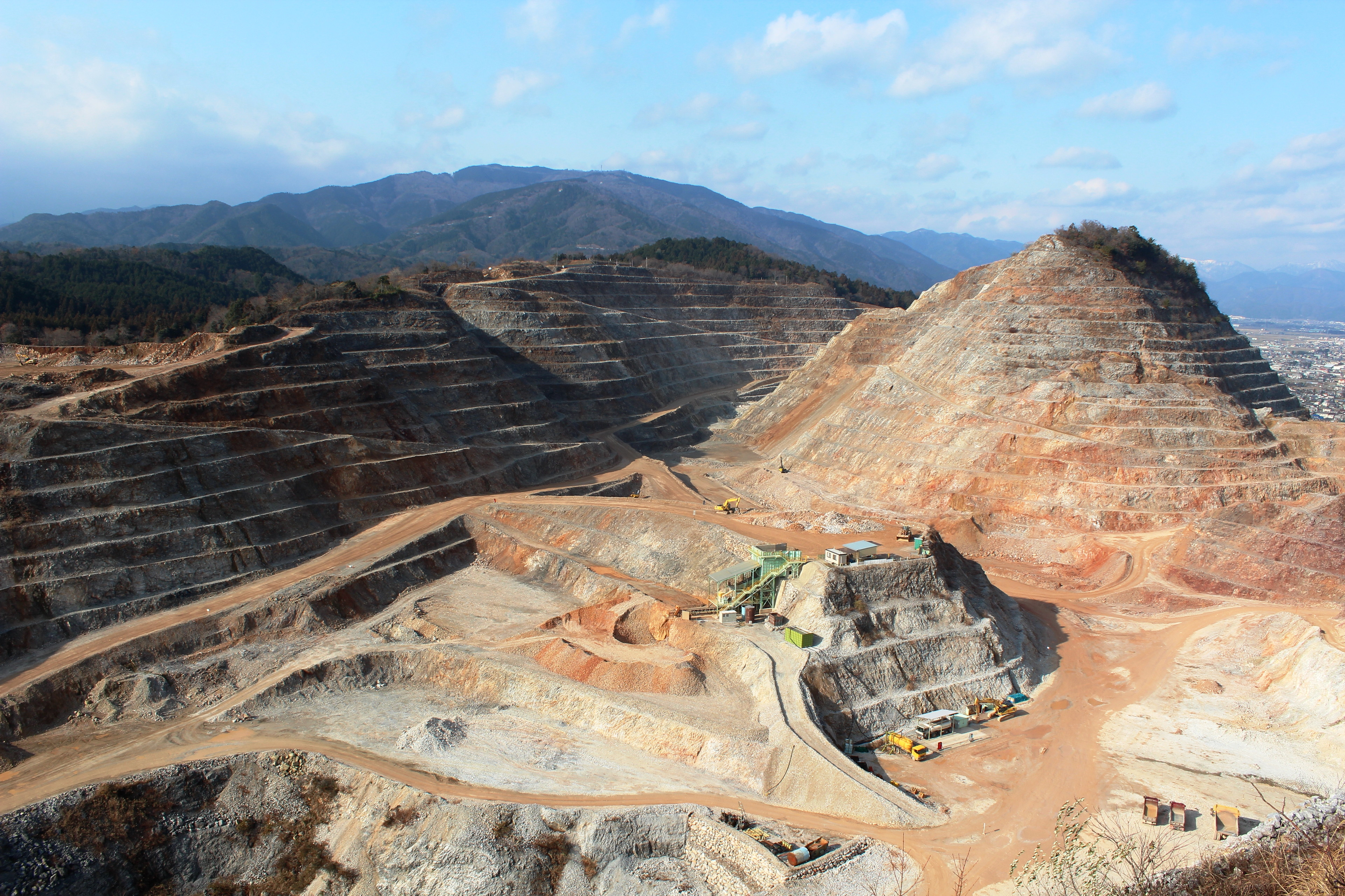 Mines in Mount Kinsho and Mount Ikeda, in Japan.